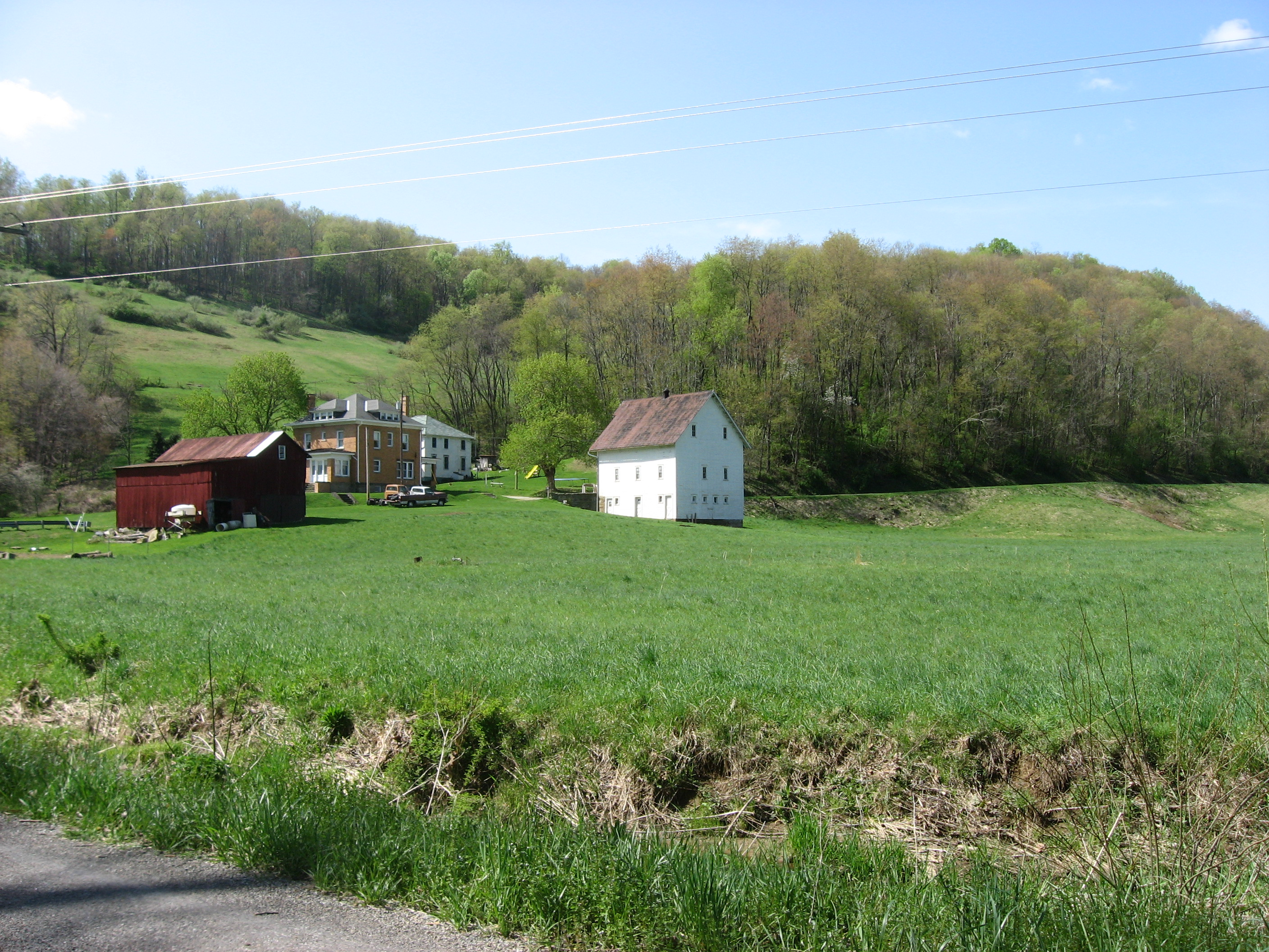 Eastern side of the fields at the Richard T. Foley Site, located along Job Creek southwest of Waynesburg in Jackson Township, Greene County, Pennsylvania, United States. The Foley Site is an archaeological site that was once a village of the Monongahela culture of Native Americans. It is listed on the National Register of Historic Places.